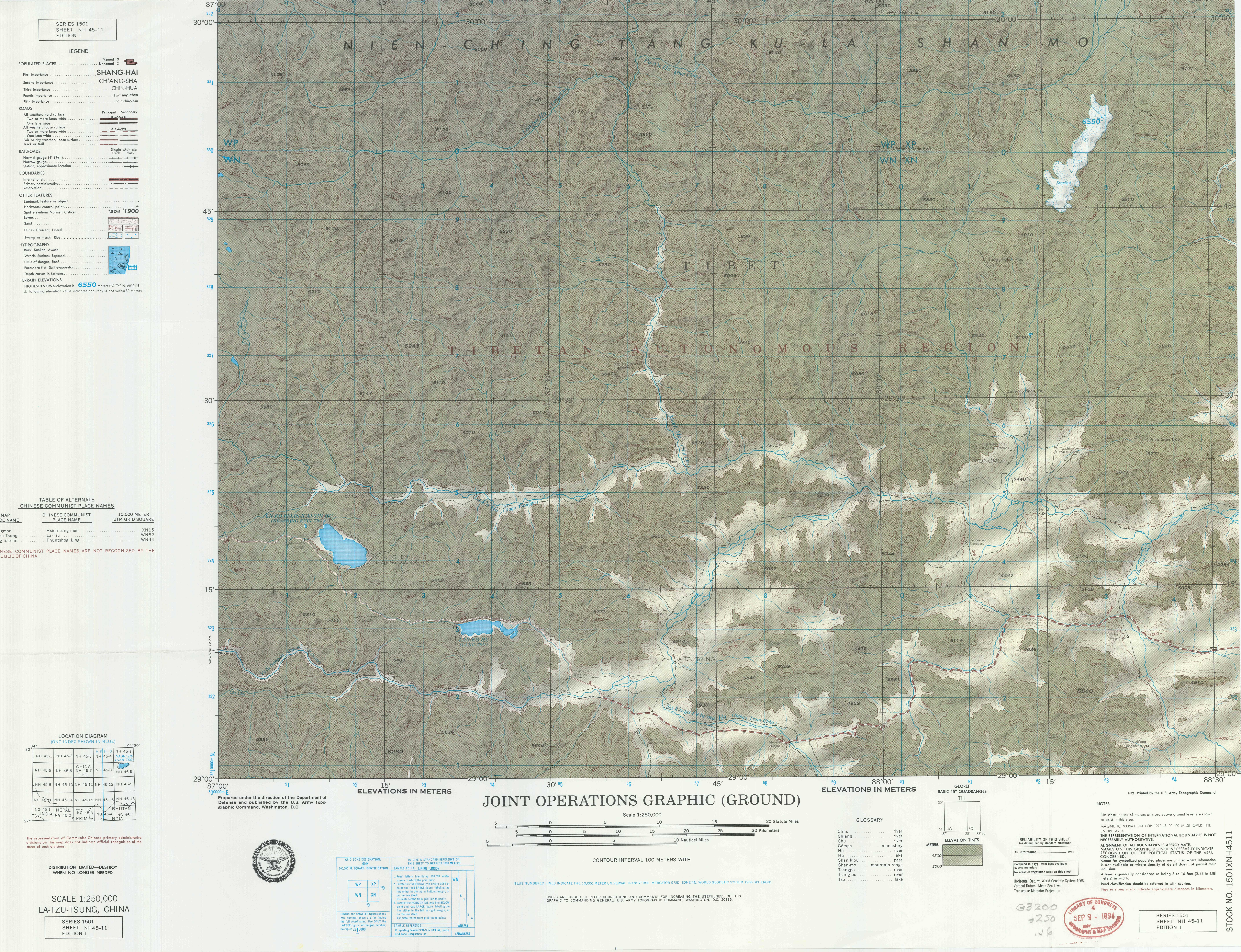 NH-45-11 Latzutsung China